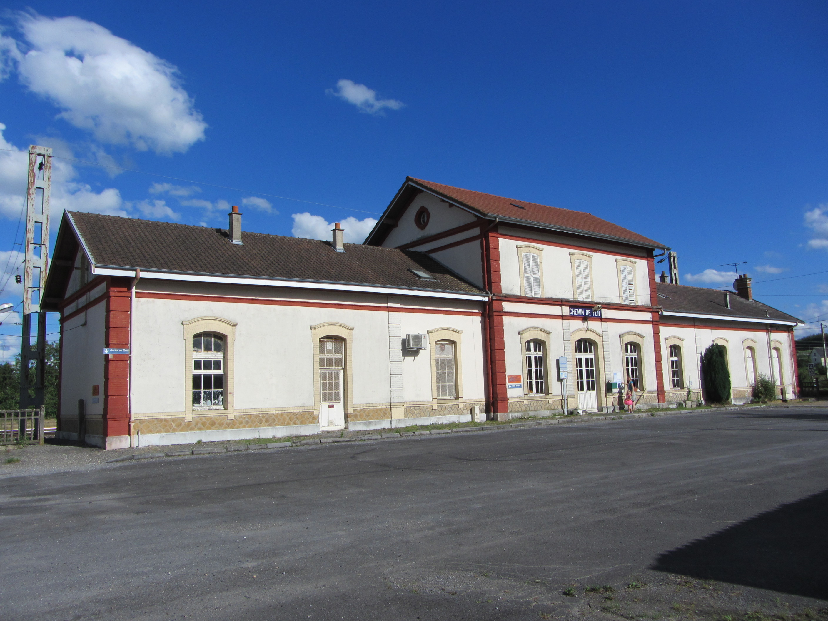 Gare de Liart